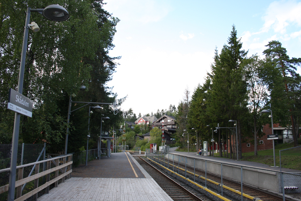 Skaadalen Metrostation seen from the very end of rail two. You can also see the entire rail 1.